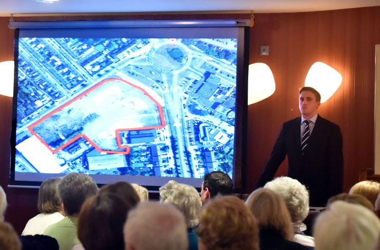 Photo of Councillor Cormac Devlin addressing Dun Laoghaire residents